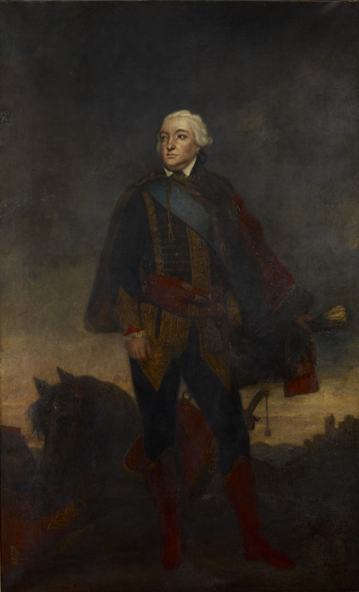 This portrait was severely damaged in the Carlton House fire of 8 June 1824; various attempts to restore it have achieved little. Its original appearance can be gauged from a small early nineteenth-century copy (OM 1044, 407607). The sitter appears standing in Hussar's uniform with the ribbon of the Saint-Esprit, holding his plumed hat in his left hand; behind him is a groom holding a charger and in the distance is a castle on a hill.